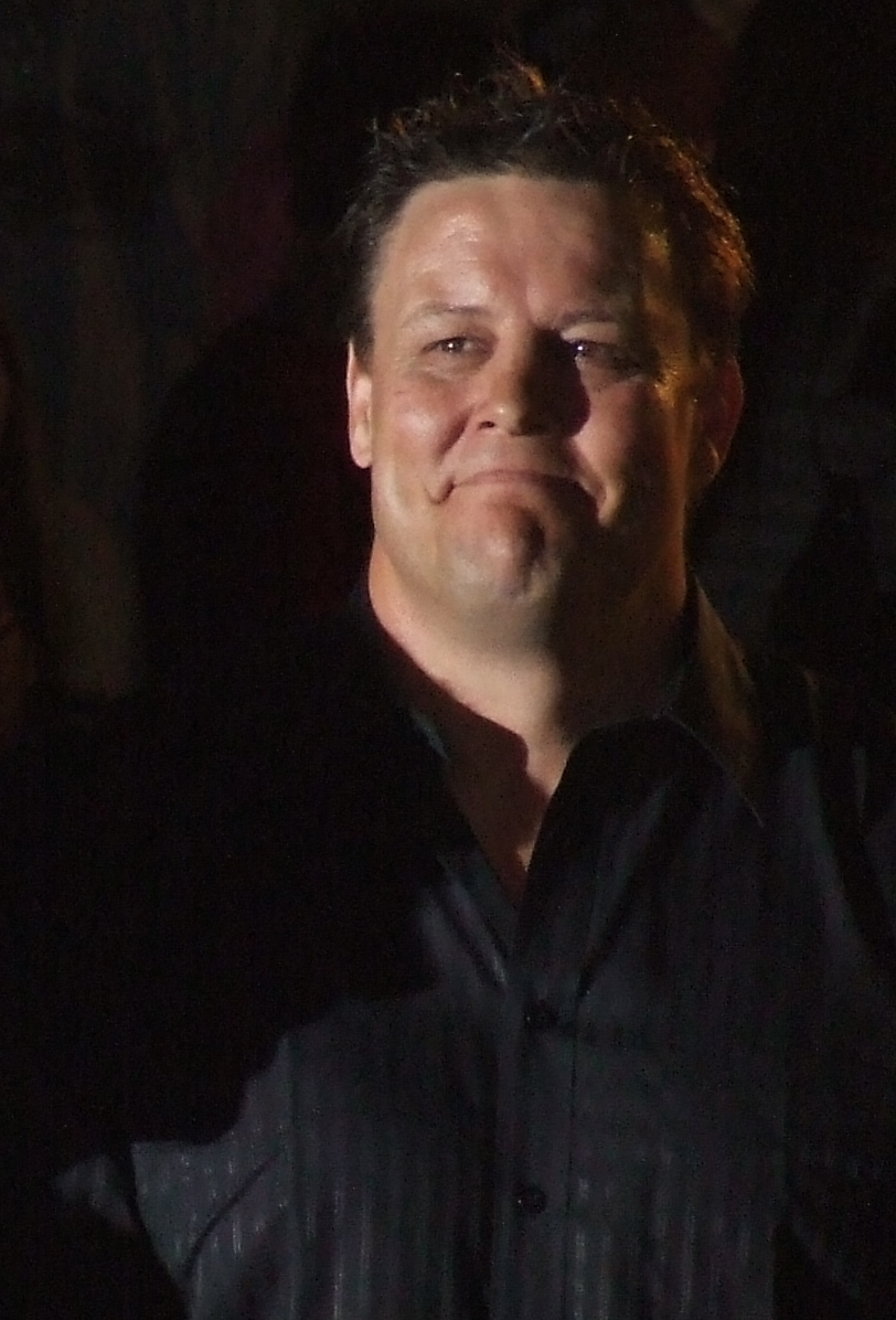 Glenn Lazarus, Australian former rugby league international.